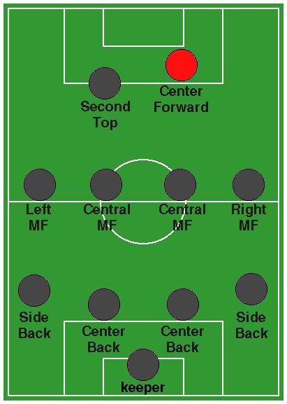 Position of CenterForward